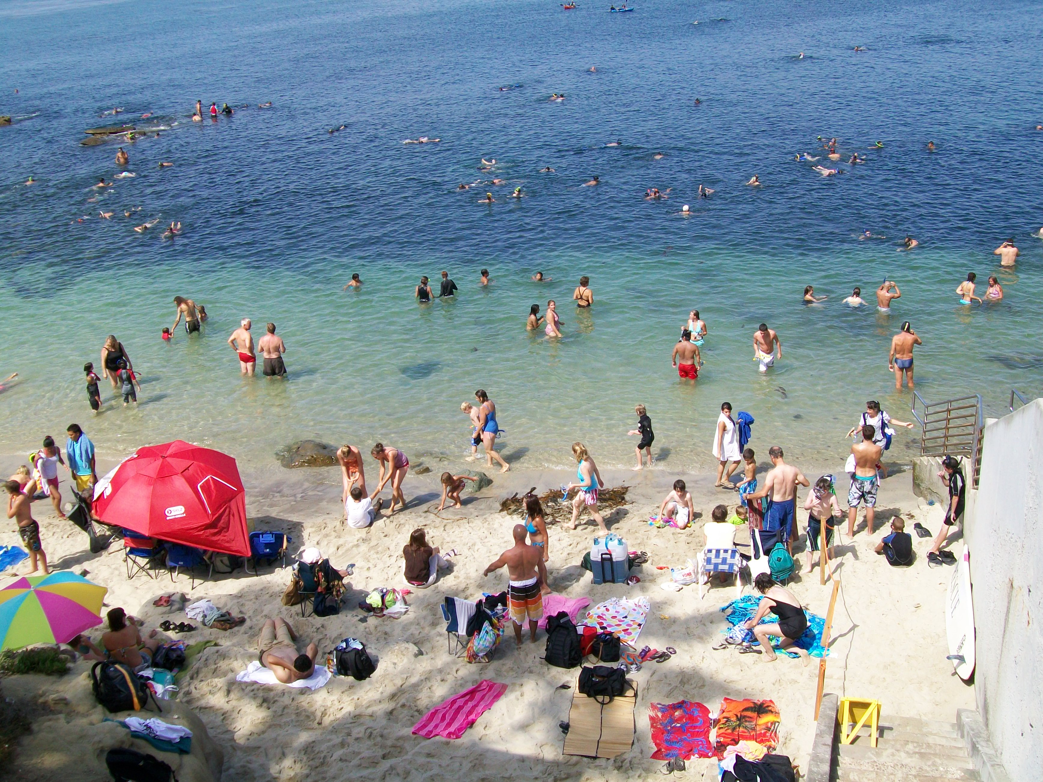 A tidal pool at La Jolla cove in San Diego California